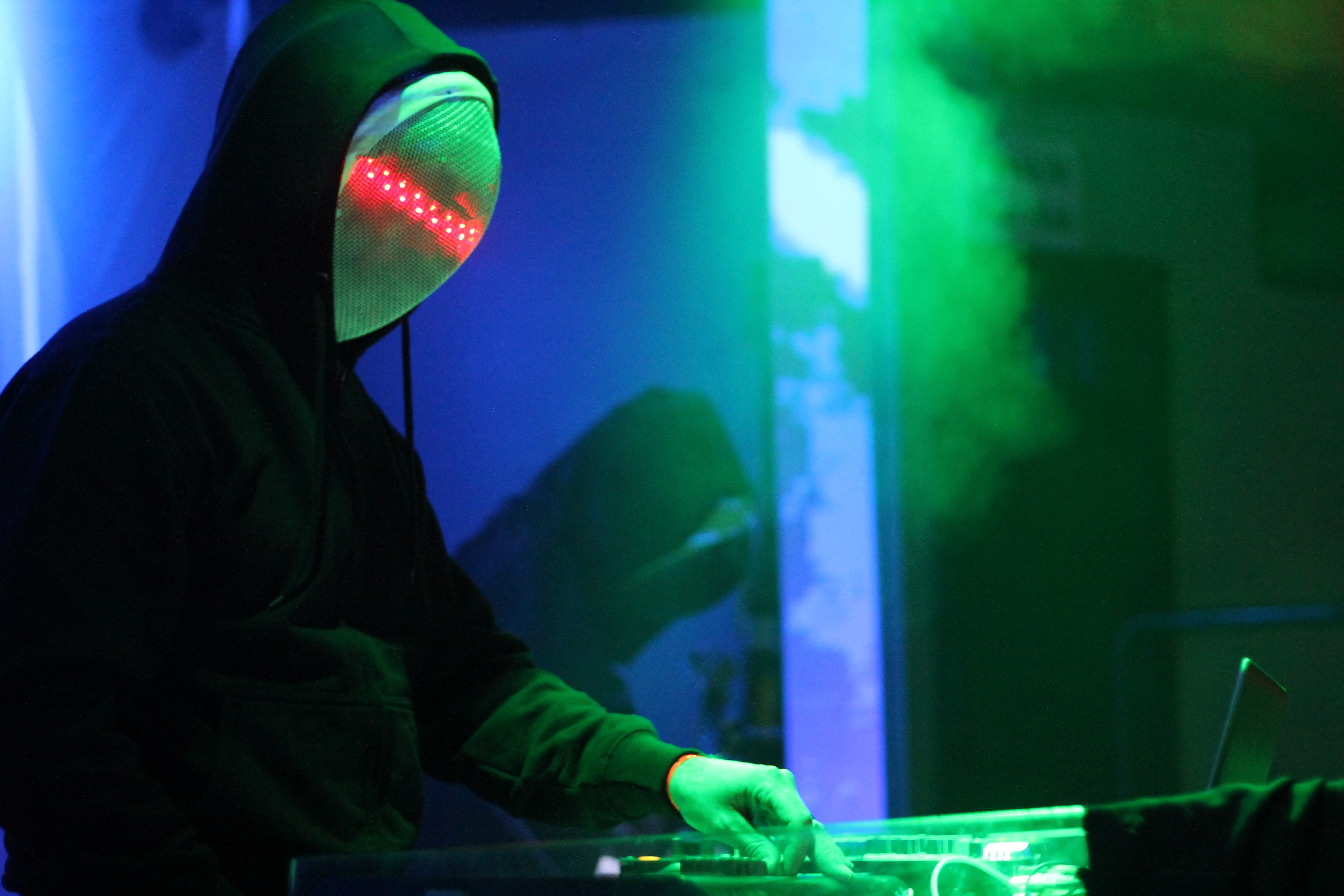 Magic Sword performs in character at China Blue at the second annual Treefort Music Fest in downtown Boise, Idaho